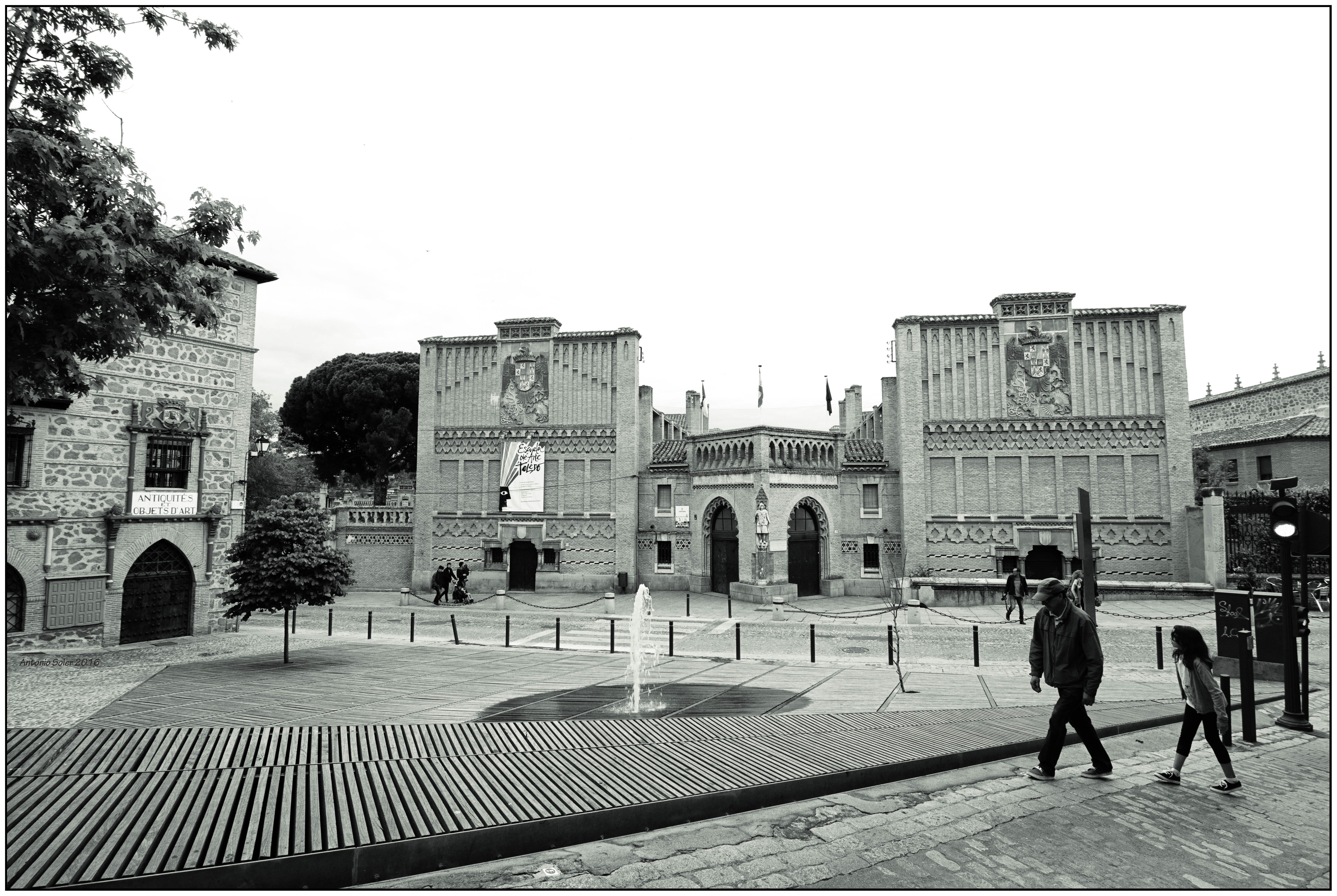 Plaza de nueva creación sobre el solar de lo que fué la sinagoga de Sofer en la Juderia toledana. El edificio del fondo es la Escuela de Artes y Oficios de Toledo, actualmente instituto de enseñanza Media.